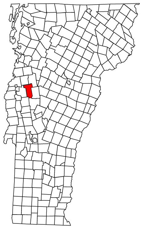 Map of Vermont towns with Bristol highlighted